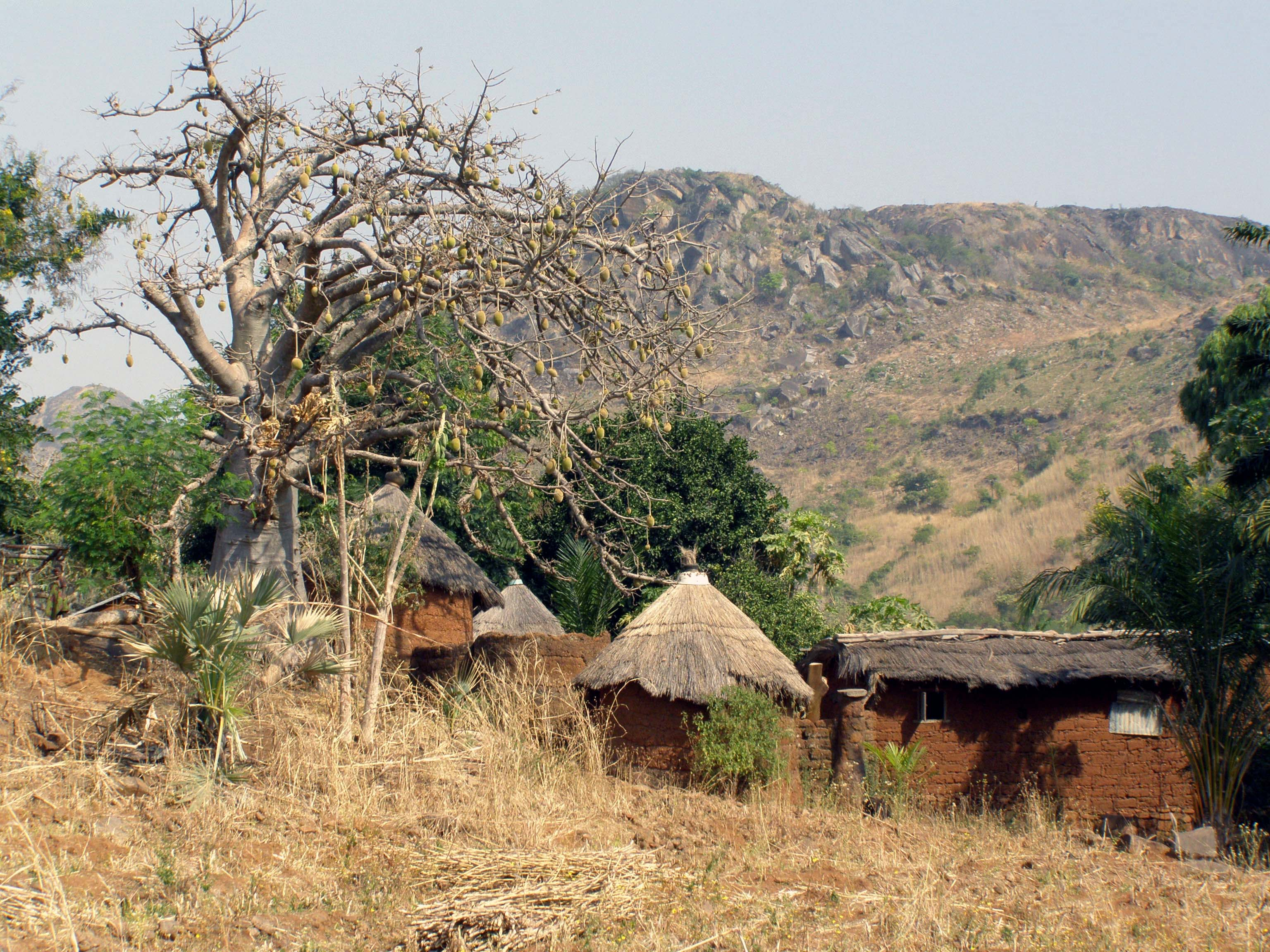 Village of Lassa, Togo